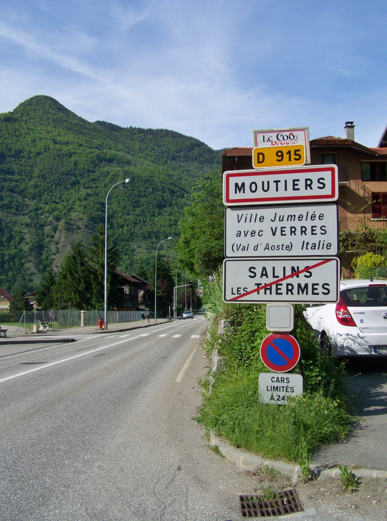 Sign welcoming to French city of Moûtiers in Savoie.